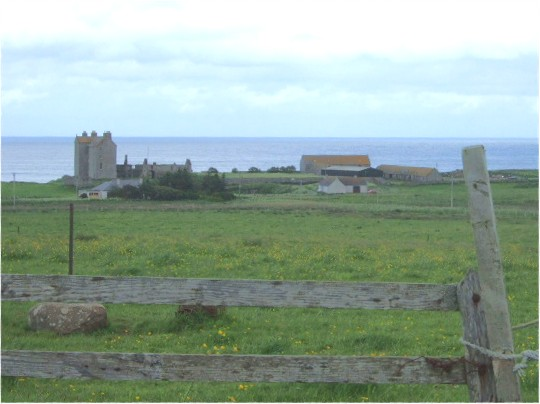 Freswick House Viewed eastwards from the A99.